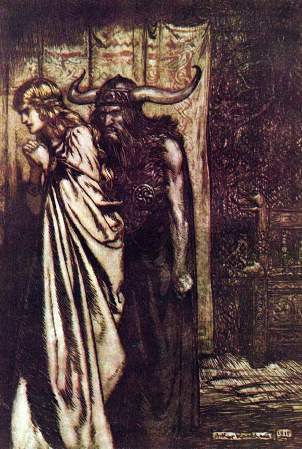 "O wife betrayed / I will avenge / Thy trust deceived"